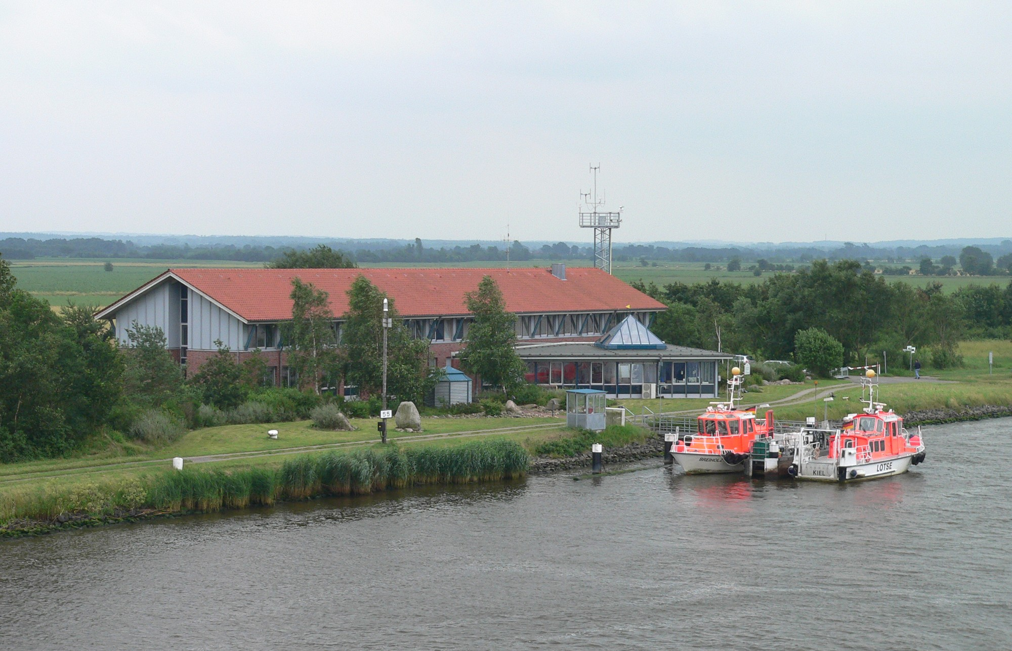 Kielcanal - pilotestation at km 55 Rüsterbergen